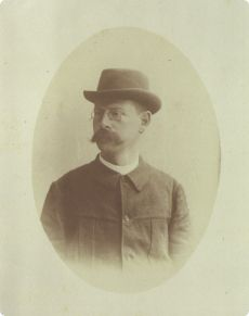 Moritz Goldschmidt